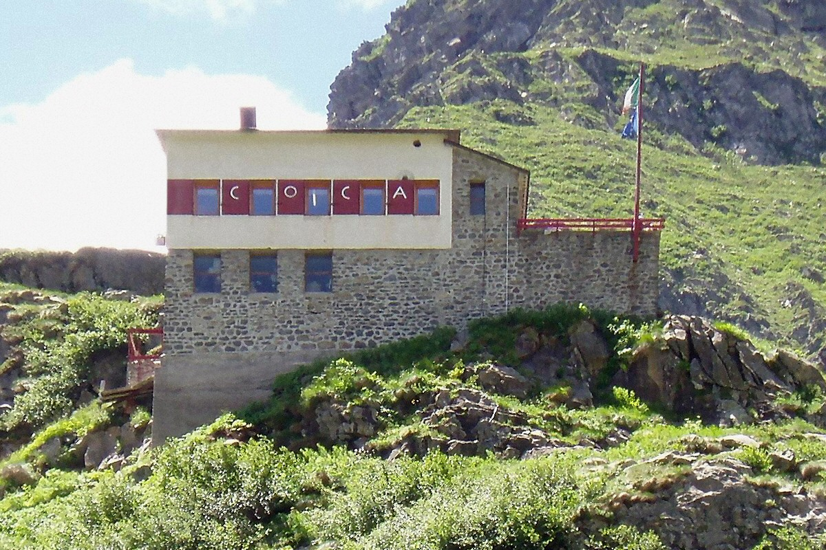 Coca alpine hut, Lombardy, Italy